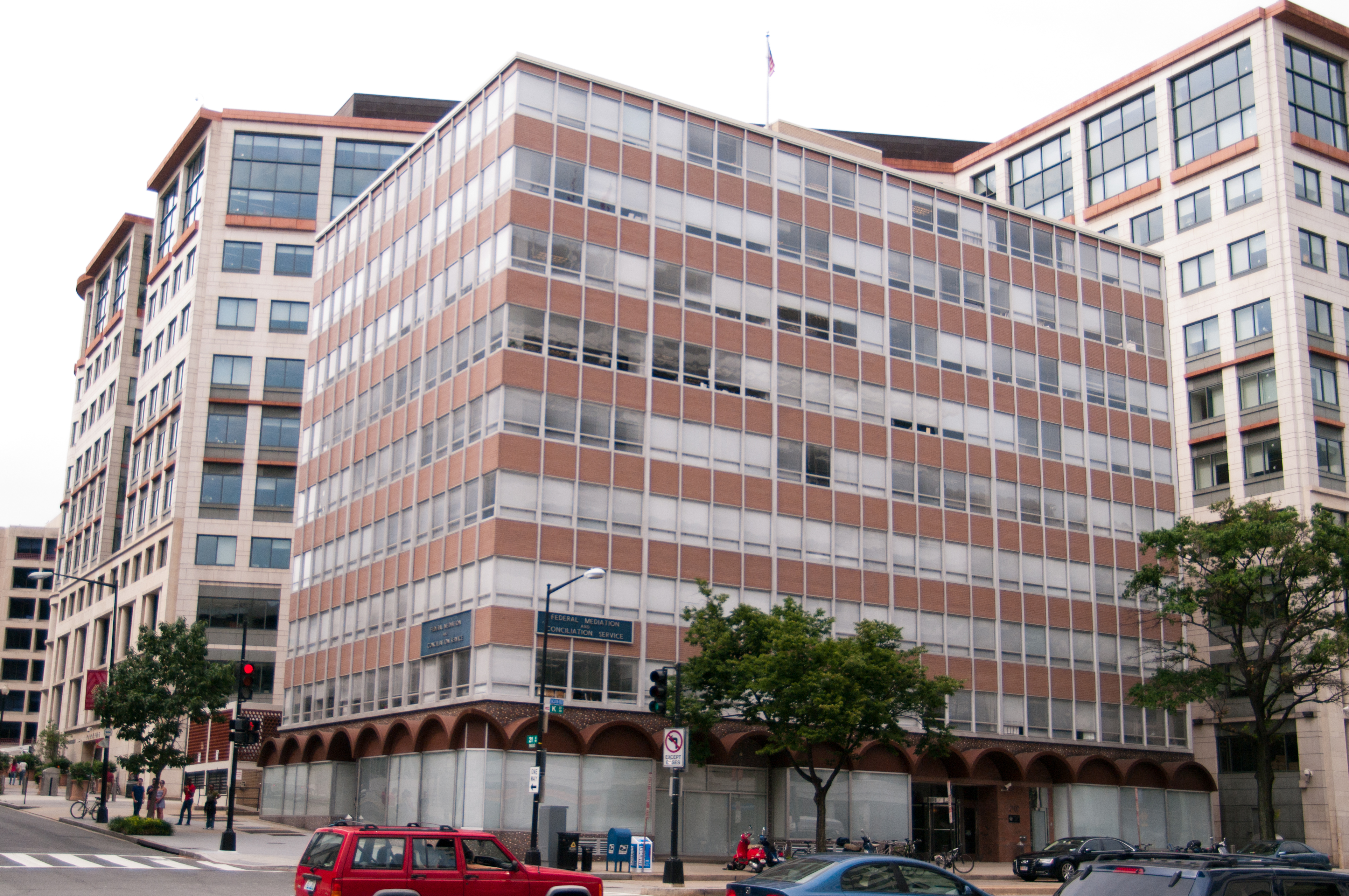 Building close to George Washington University, DC